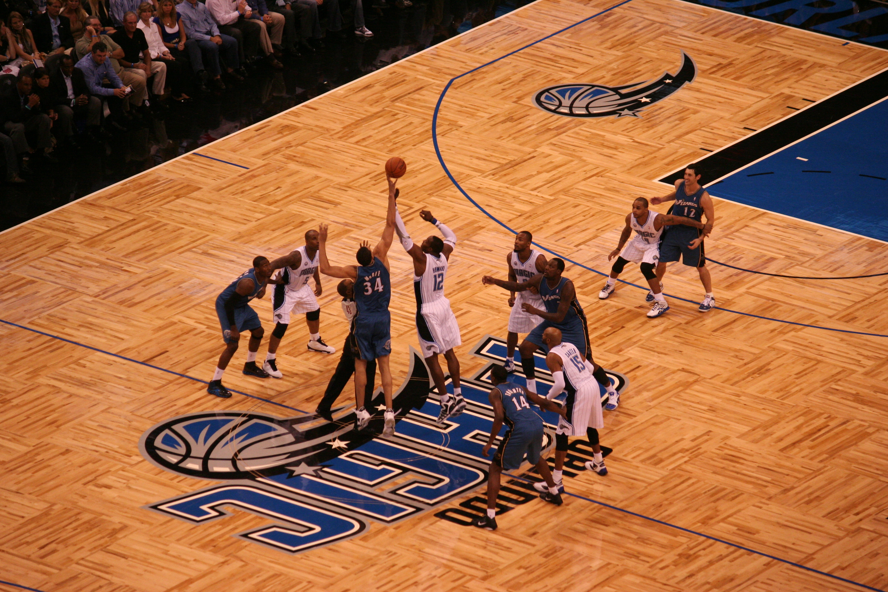 Opening tipoff at Amway Center for a regular season NBA game.